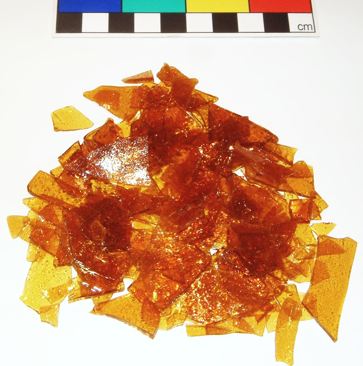 Blond shellac sample